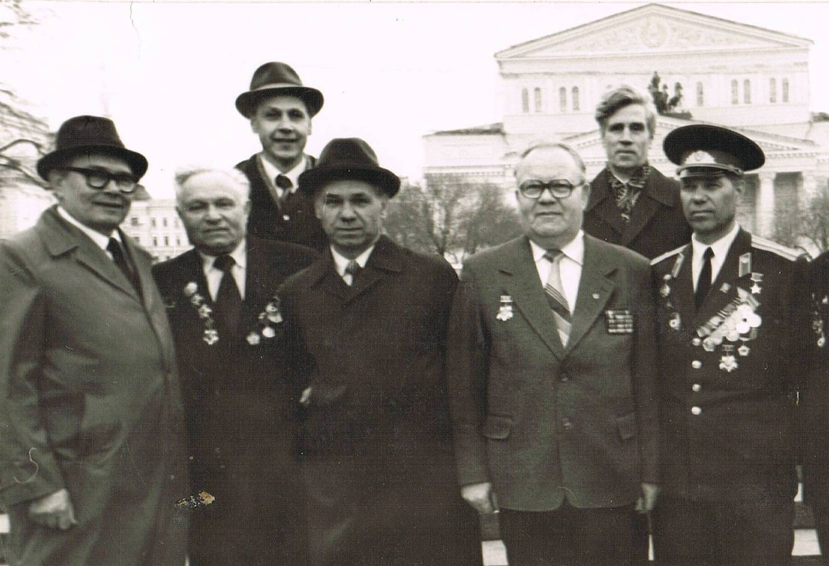 Veterans of Russia Moskau. Victory Day 1981. Heroes of Russia Dorofeev A. V., Heroes of the Soviet Union Schitikov I. P.